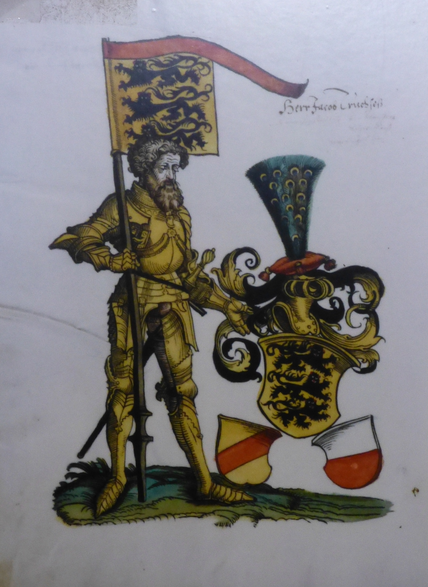 Jakob I. von Waldburg